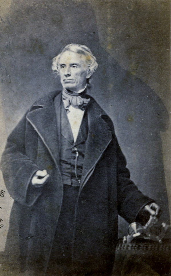 Prof. Morse. Samuel Finley Breese Morse (April 27, 1791 – April 2, 1872) was a contributor to the invention of a single-wire telegraph system based on European telegraphs, co-inventor of the Morse code, a painter of historic scenes, as well as one of the earliest daguerreotypists in America.